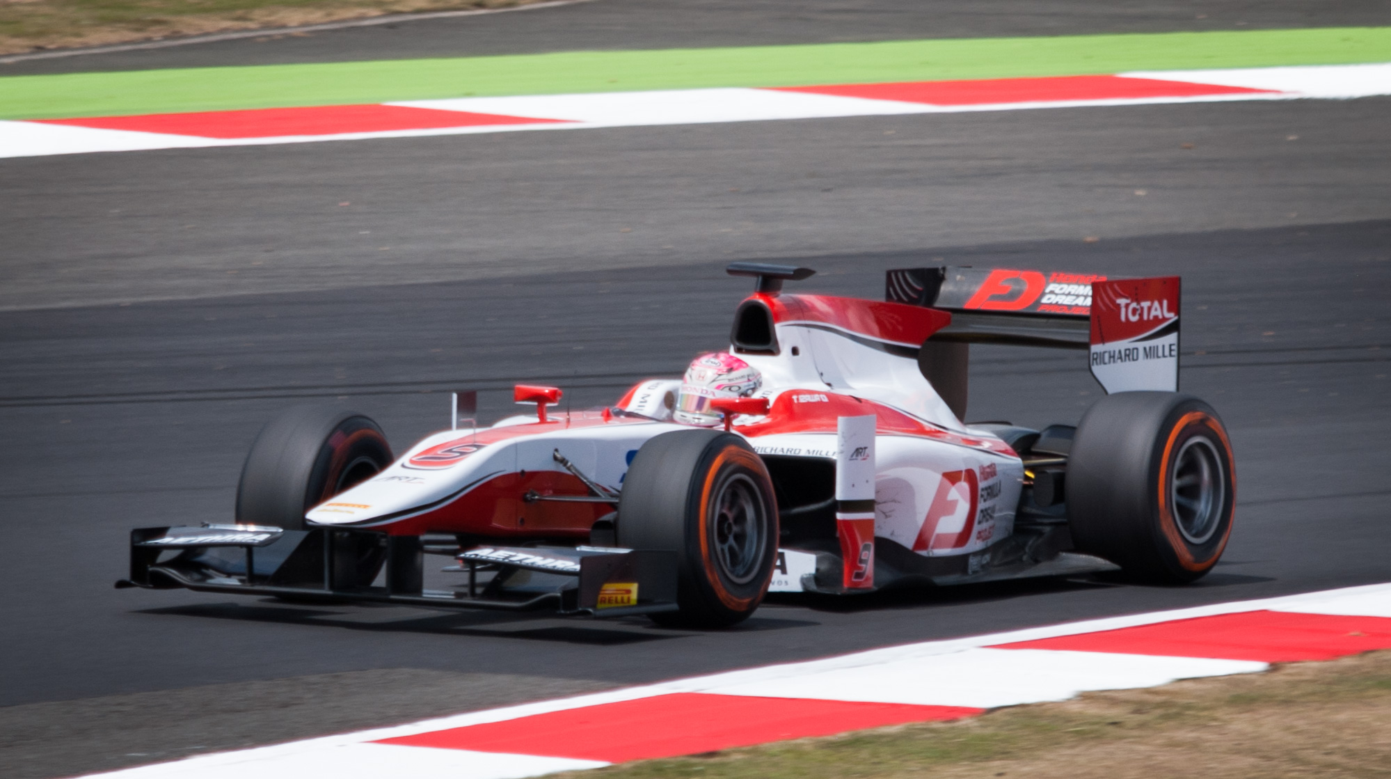 Takuya Izawa driving for ART Grand Prix at Silverstone. Round 5 of the 2014 GP2 Series Championship.